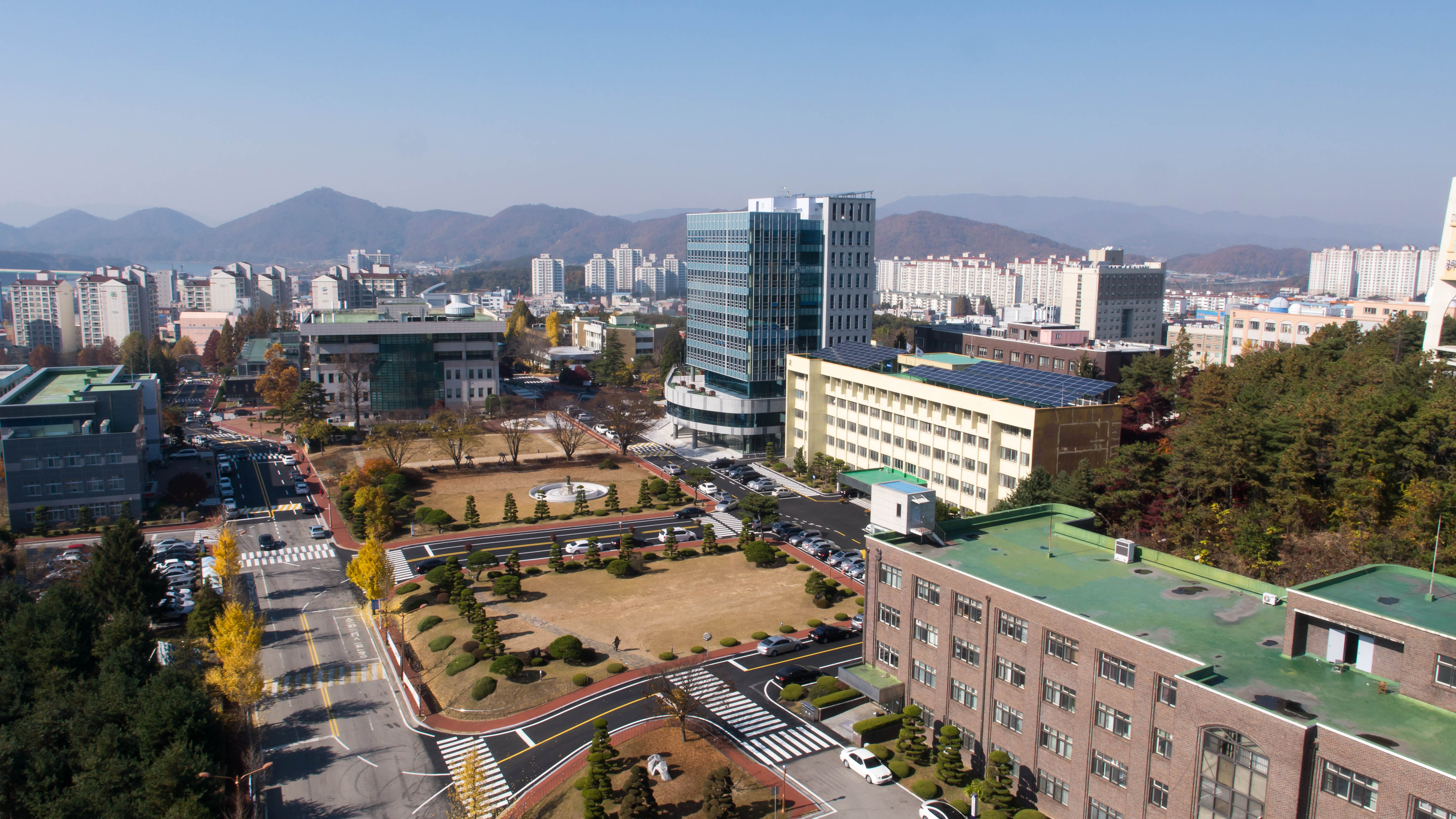 Kongju National University Gongju (Shin-gwan) Campus